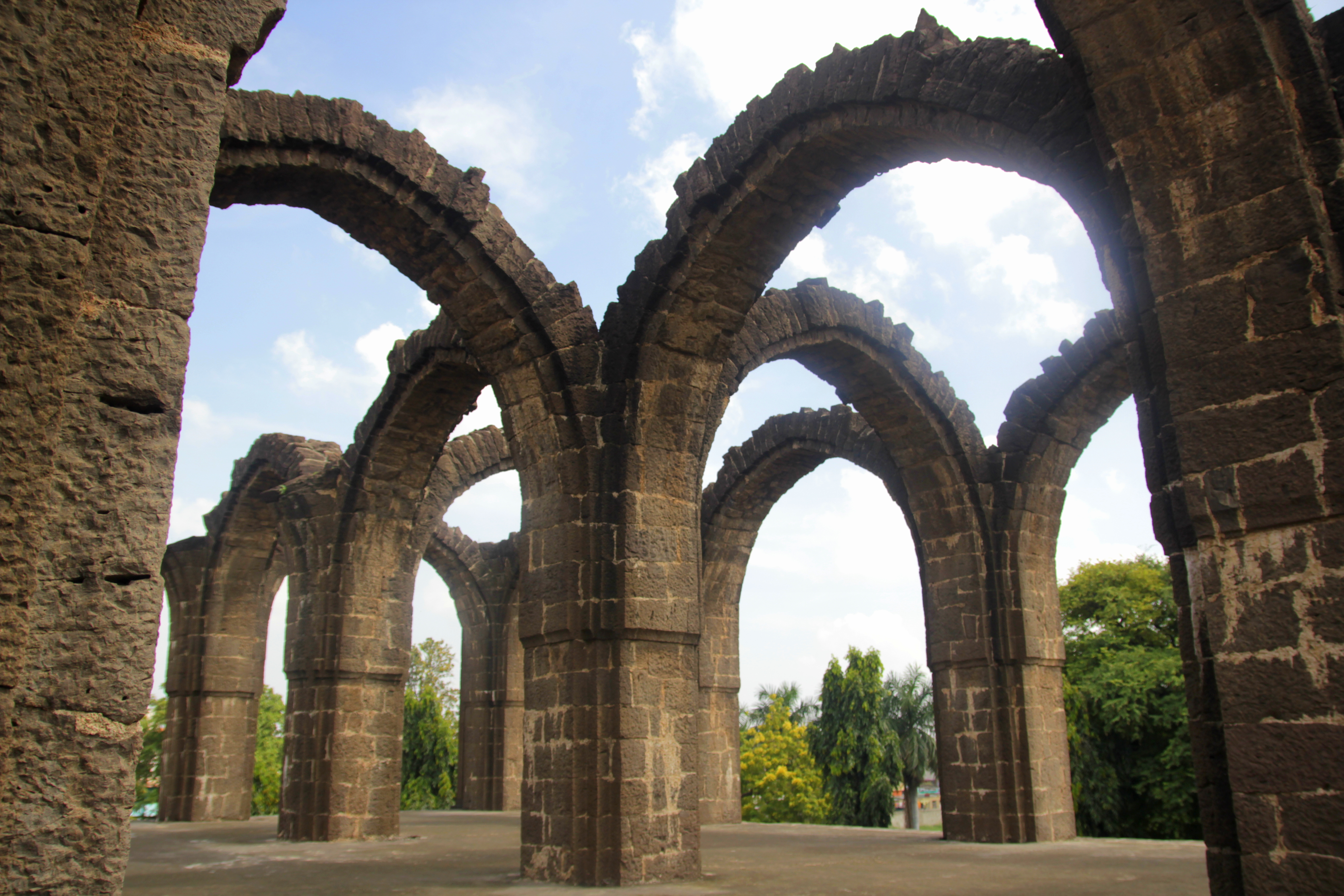 An interior view of the Bara Kaman, Bijapur